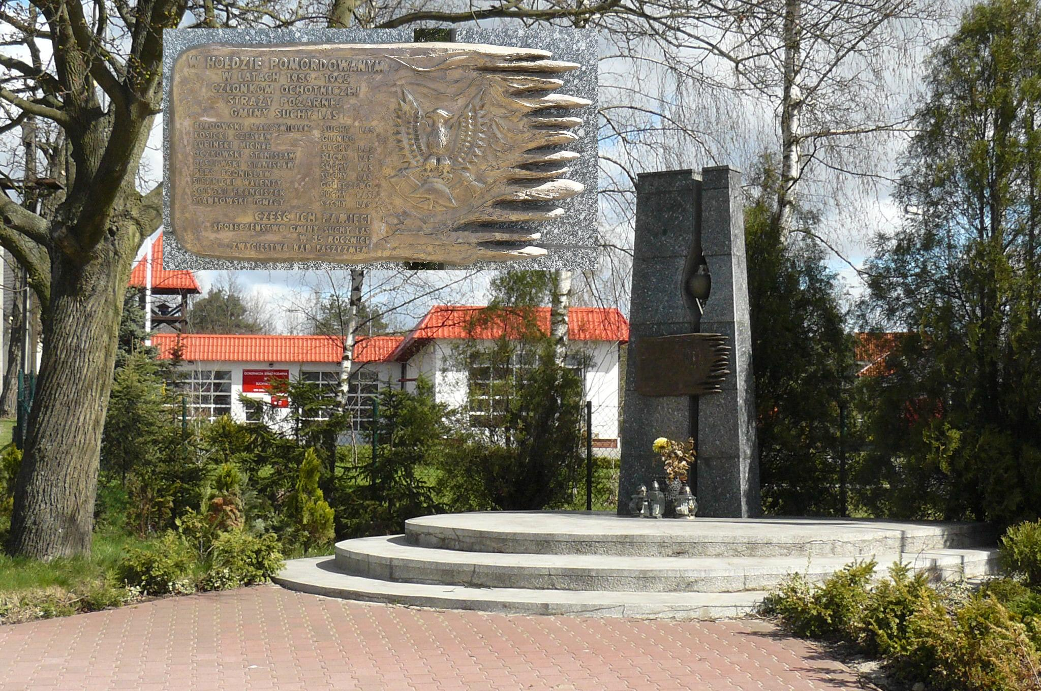 Fire Dept. Monument, Suchy Las, PL.